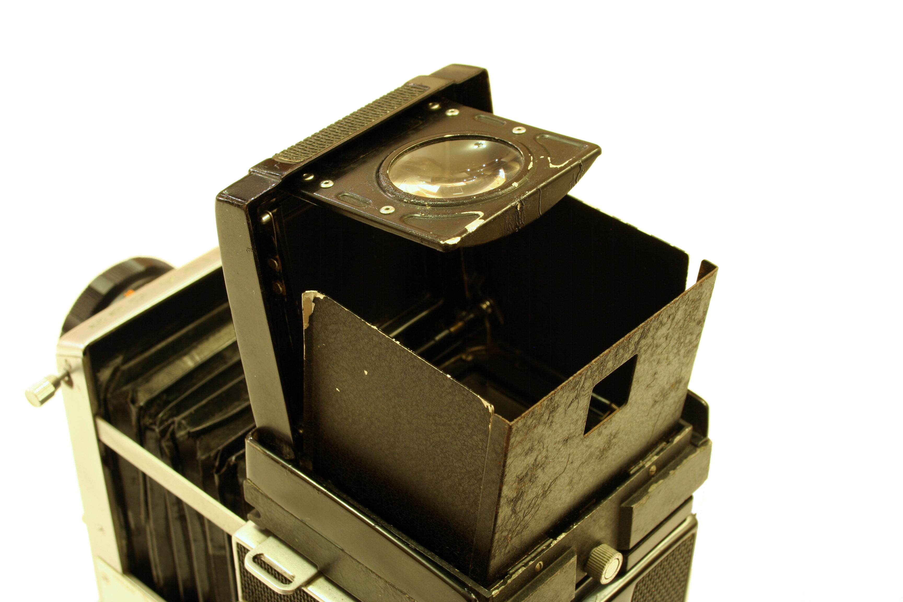 A Mamiya C33 Professional camera with two 105mm f/3.5 lenses.